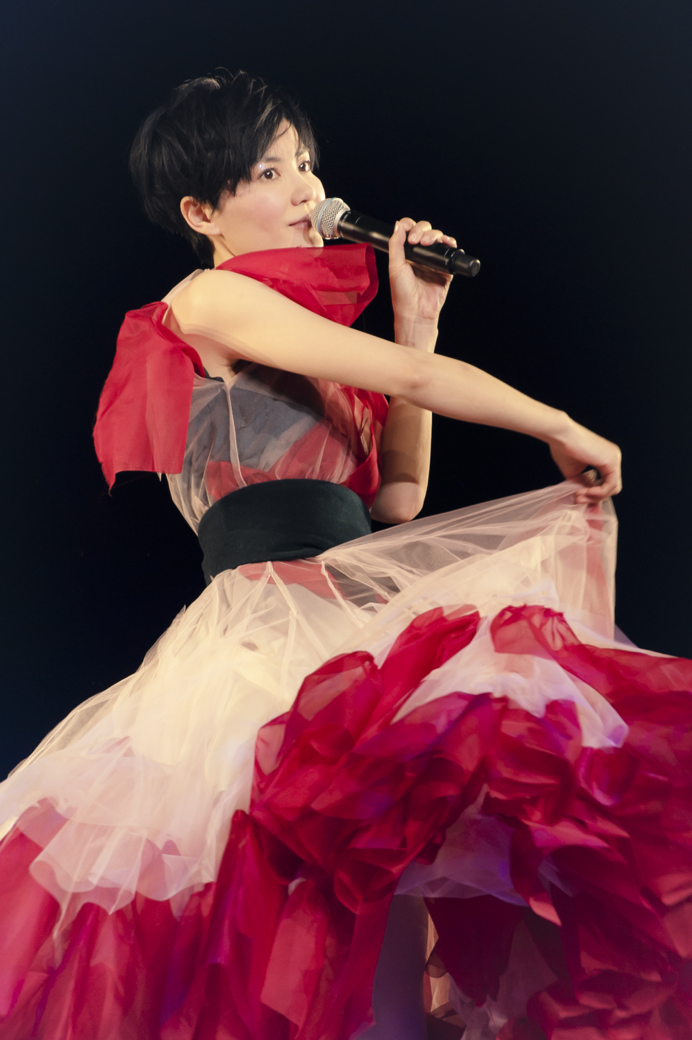 Faye Wong Concert Tour 2011, Kuala Lumpur